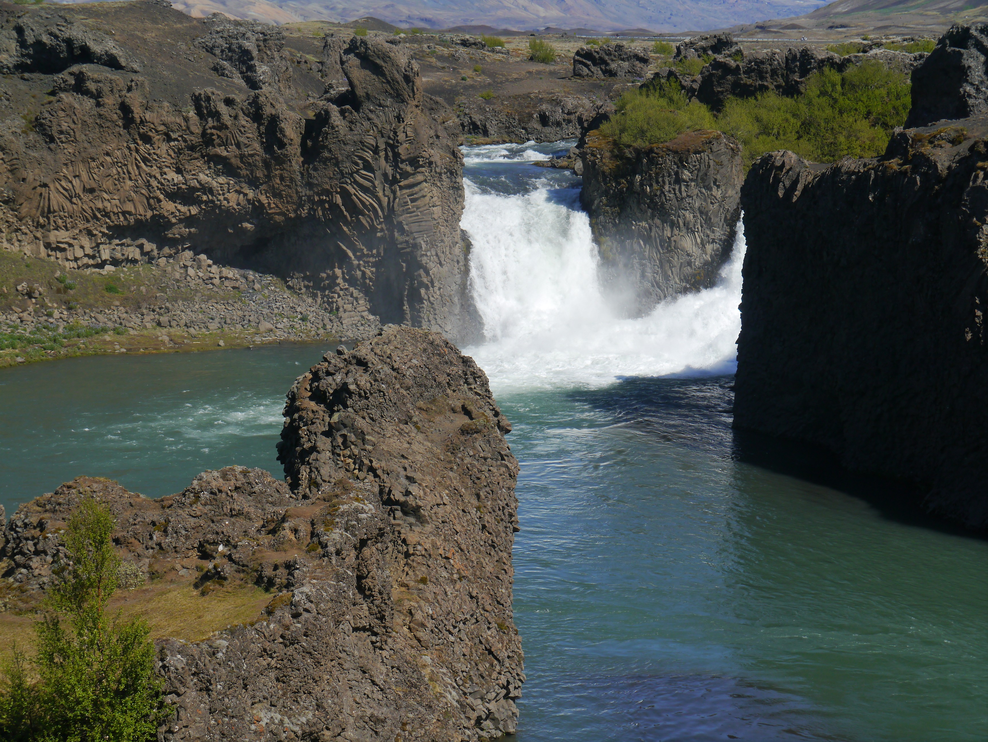 Hjálparfoss